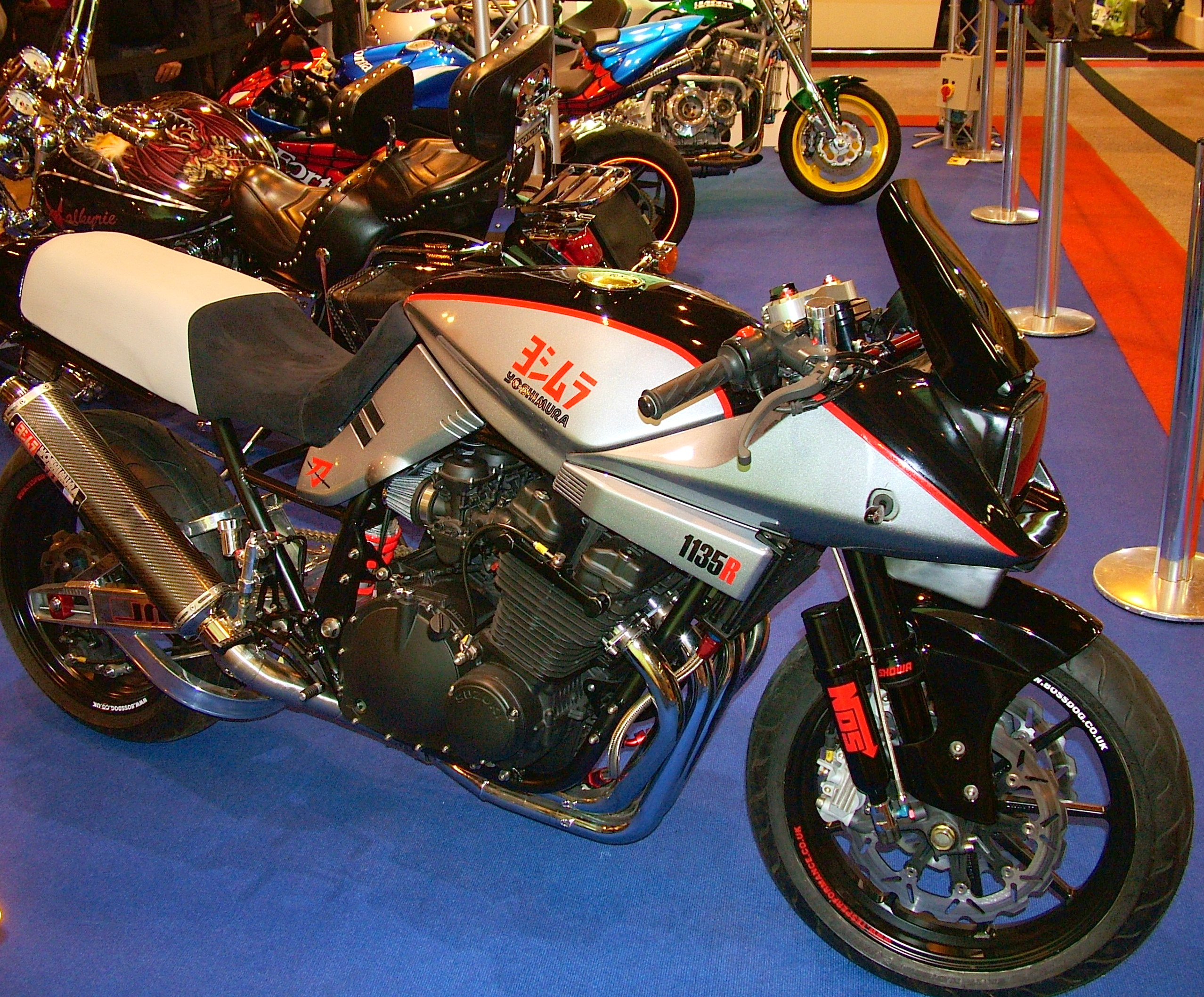 Suzuki GSX1135R Yoshimura @ NEC Motorbike and Scooter Show 2007